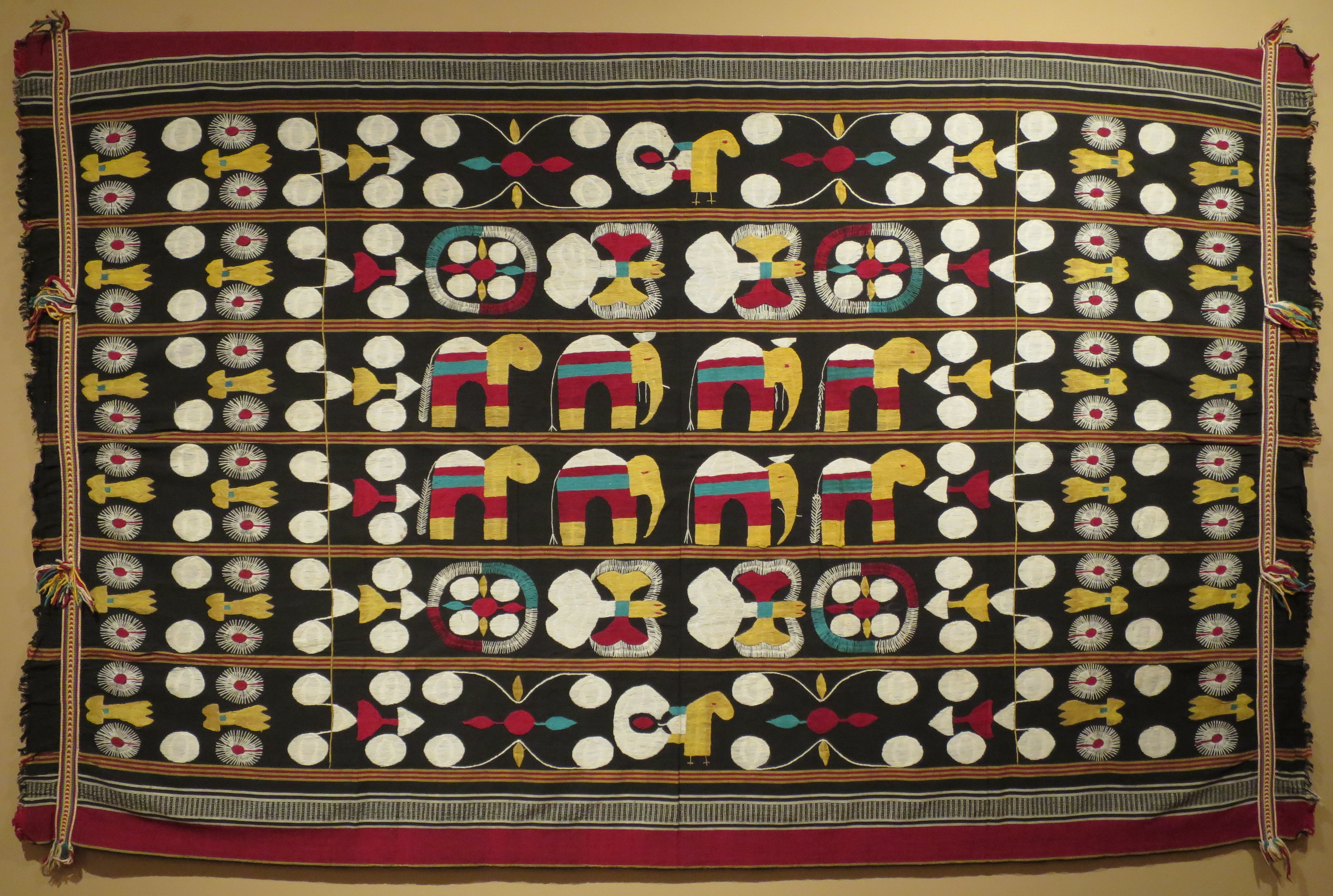 Embroidered textile from Nagaland, India, mod-20th century, cotton, plain and supplementary warp weave, embroidery, Honolulu Museum of Art, accession 13688.1